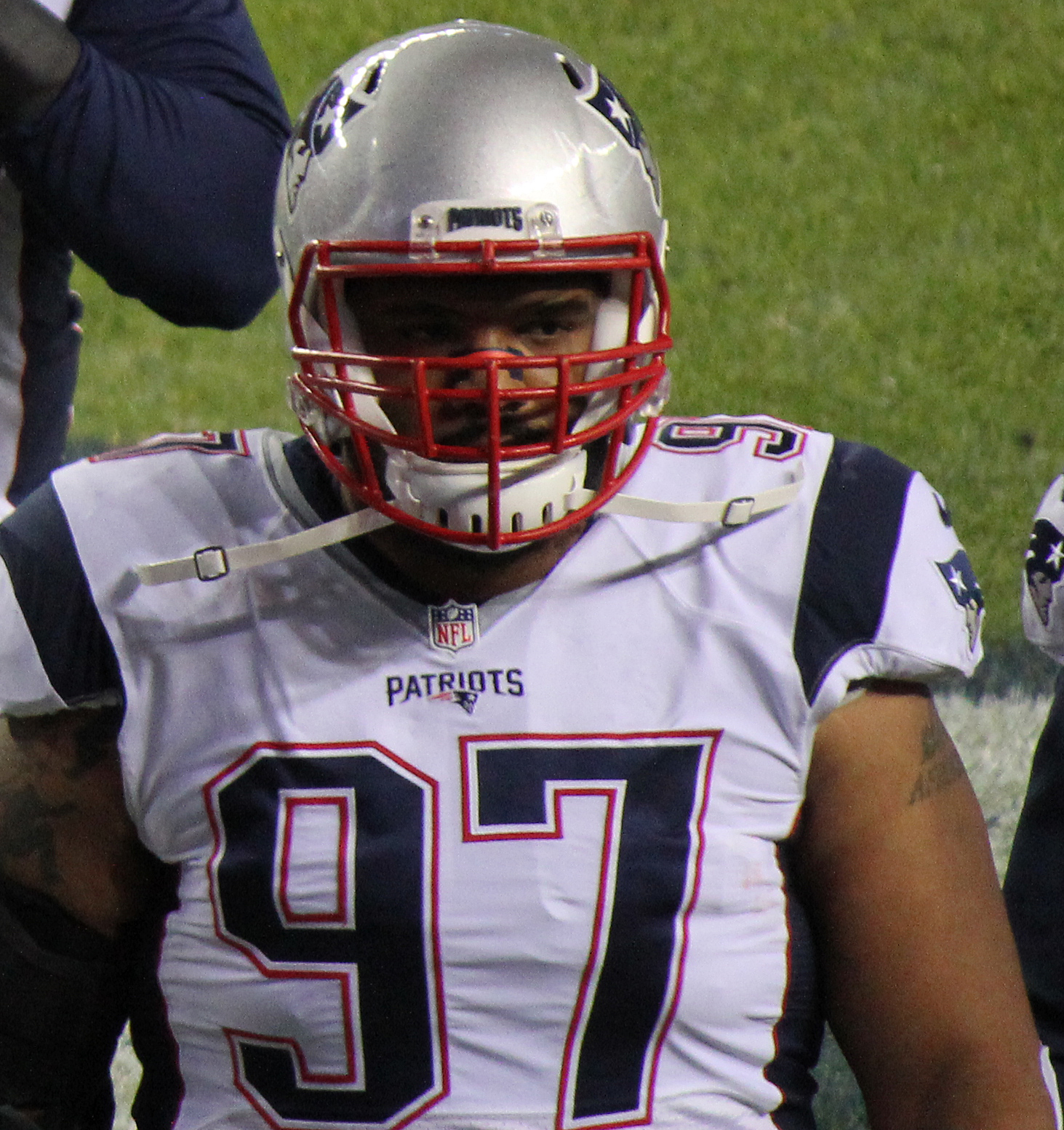 Alan Branch, a player on the National Football League.